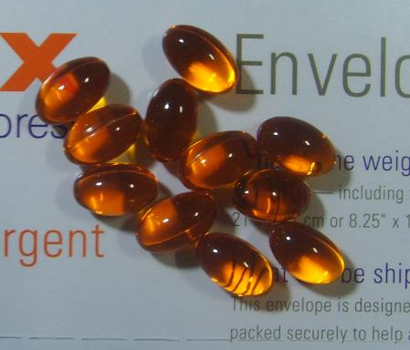 Sea buckthorn seed oil softgels. Sea buckthorn seed oil contains: omega 6(linoleic acid), omega 3(linolenic acid), omega 9(oleic acid), 22 essential fatty acids, vitamin E, alpha-tocopherols, carotenoids, 106 of 190 bioactive components found in the oil, vitamin C, amino acids, flavonoids, beta-sistosterols.